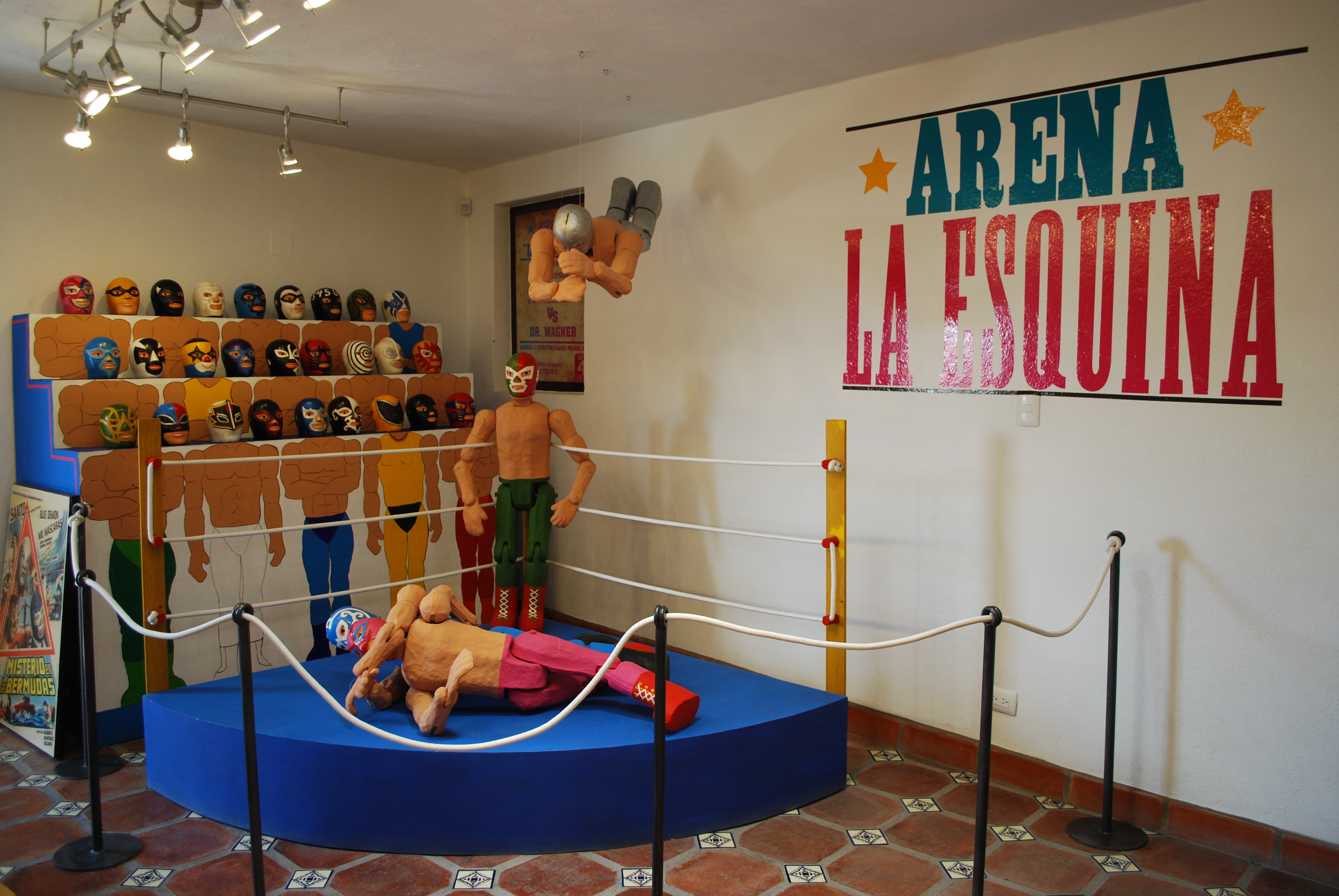 Lucha libre display at the Museo del Juguete in San Miguel Allende, Guanajuato